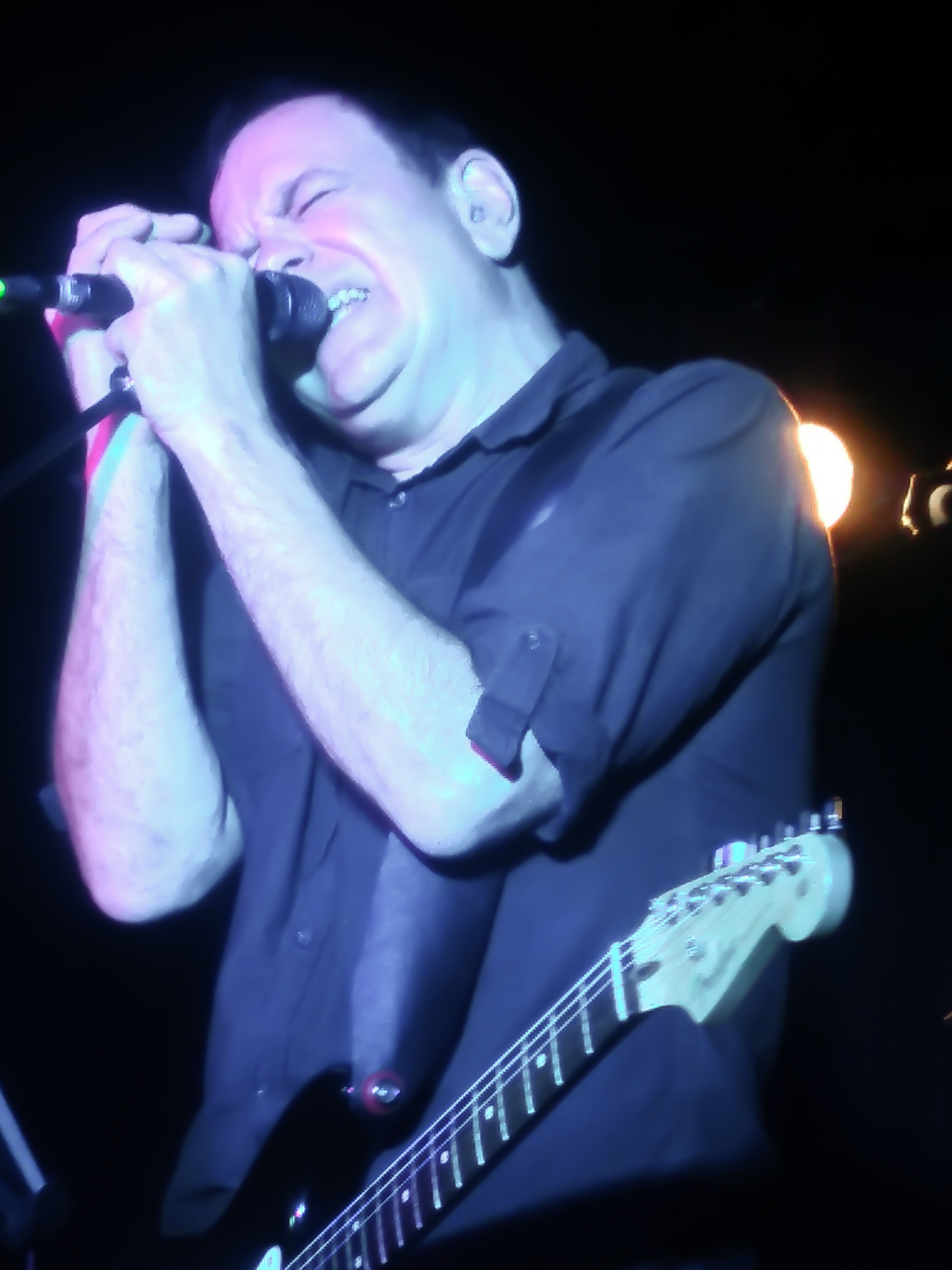 David Gedge, singer and leader of The Wedding Present performing at Loco Club in Valencia. November 2016.